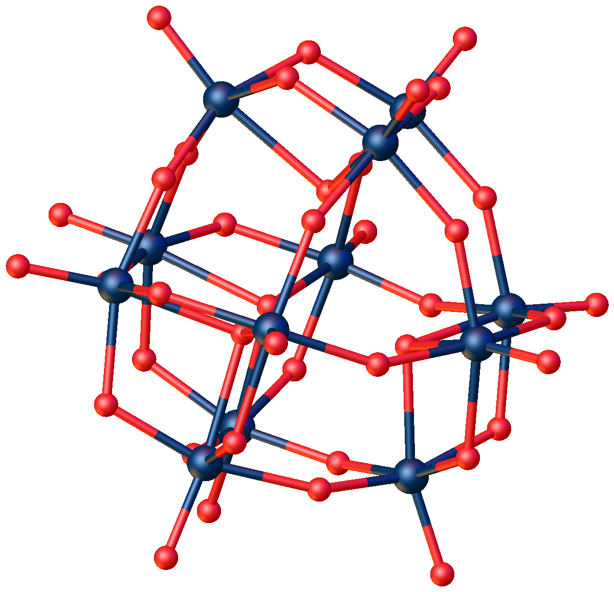 M12O40 cage in metatungstate